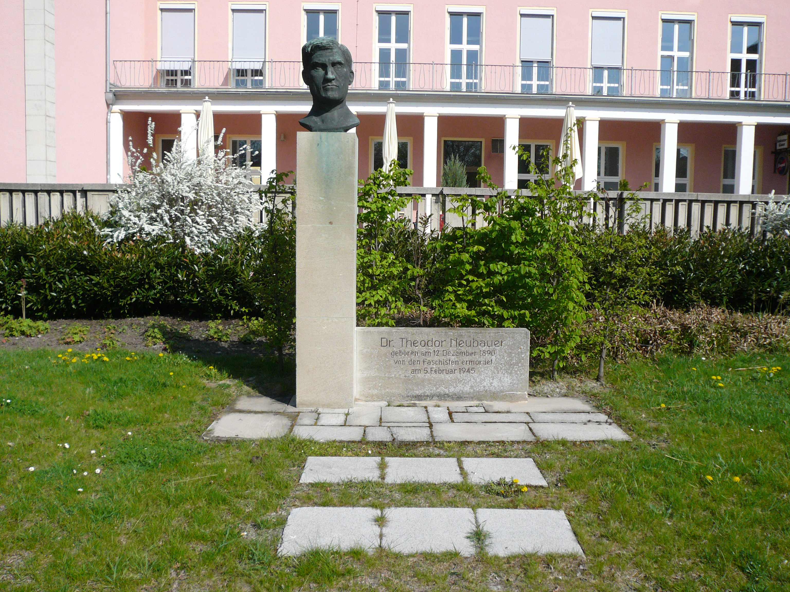 A memorial for Theodor Neubauer at the campus of the University of Erfurt, Germany